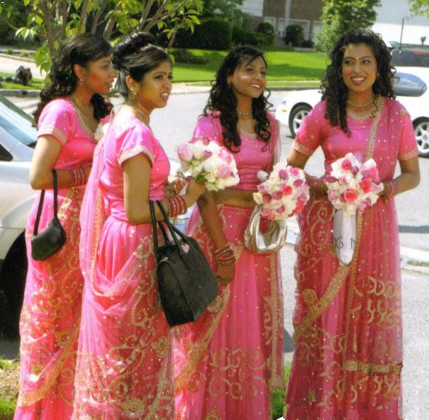 Bridesmaids dressed in pink lehnga cholis